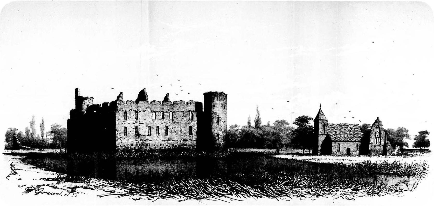 De Haar House, before restauration. Lithography.